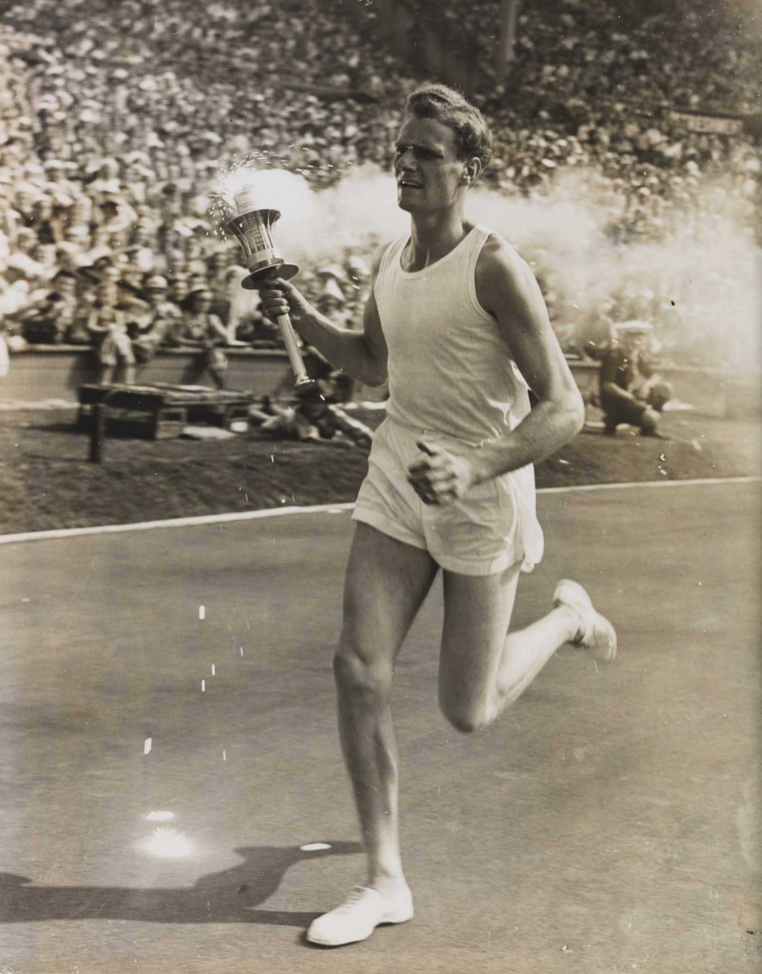 The Olympic flame arrives at Wembley Stadium carried by English athlete John Mark (1925-1991), a medical student. Daily Herald Archive at the National Media Museum We're happy for you to share this digital image within the spirit of The Commons. Certain restrictions on high quality reproductions of the original physical version of apply though; if you're unsure please visit the National Media Museum website. For obtaining reproductions of selected images please go to the Science and Society Picture Library.